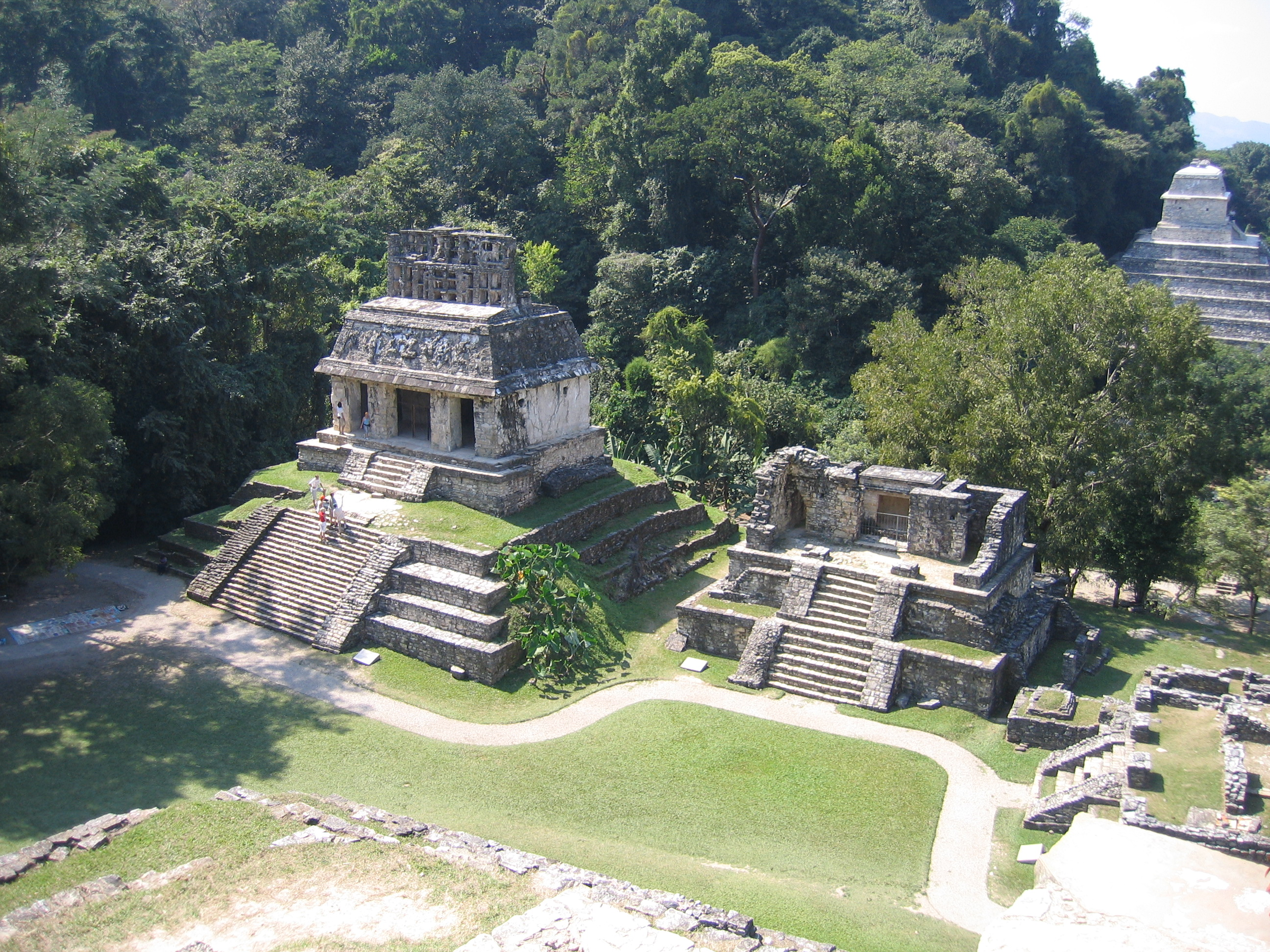 Image from the Mayan ruin site Palenque.